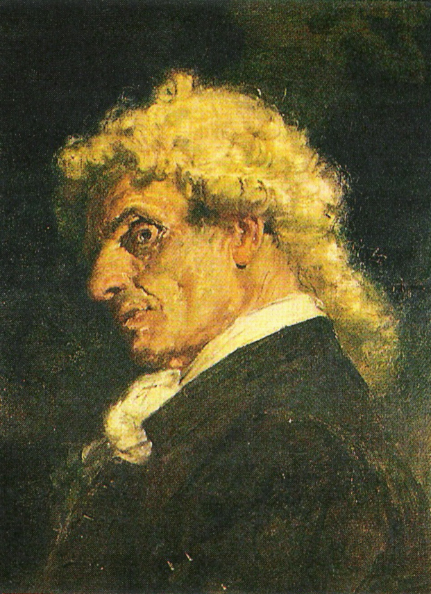 Portrait of Giuseppe Tartini